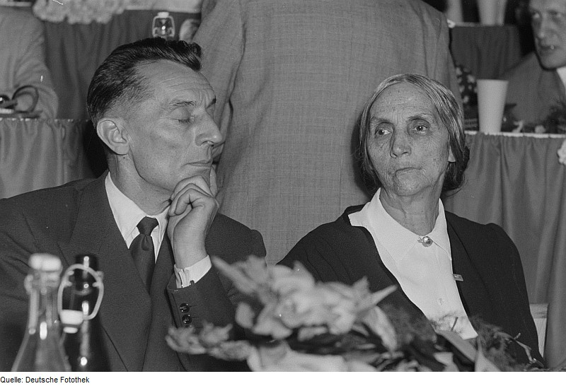 Original image description from the Deutsche Fotothek Jean Frédéric Joliot-Curie